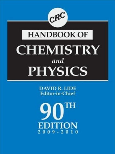 CRC Handbook of Chemistry and Physics, 90th Edition (Title)